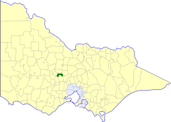 Location of the Shire of Newstead within Victoria.